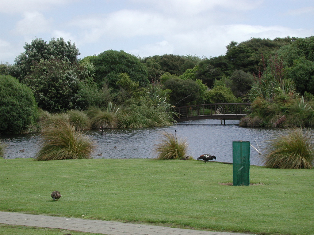 Lawn area in front of lake in Nga Manu Nature Reserve, Waikanae.